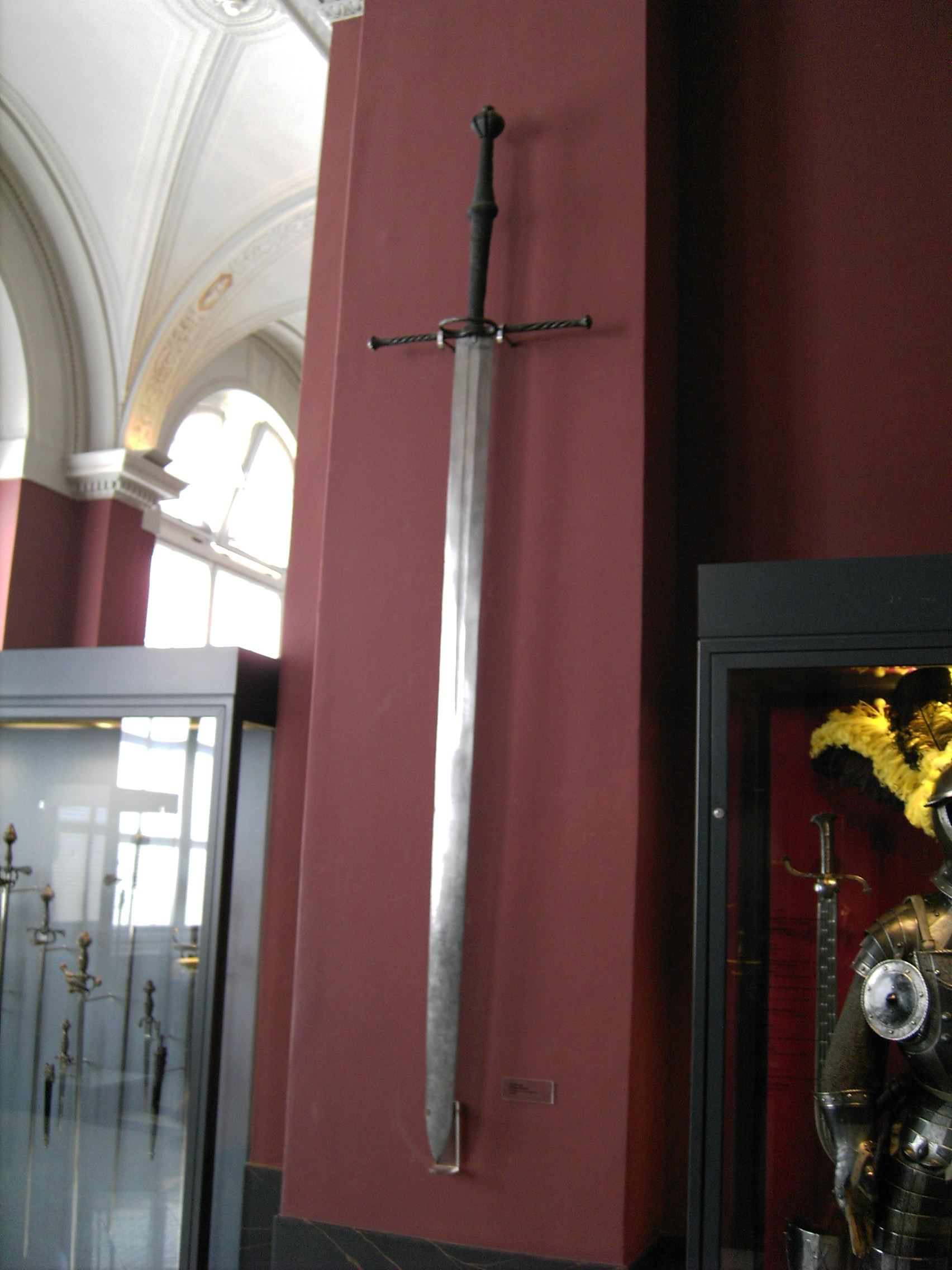 Dresdner Zwinger, 16th or 17th century armour and weapons, Zweihänder. Bihanded sword.